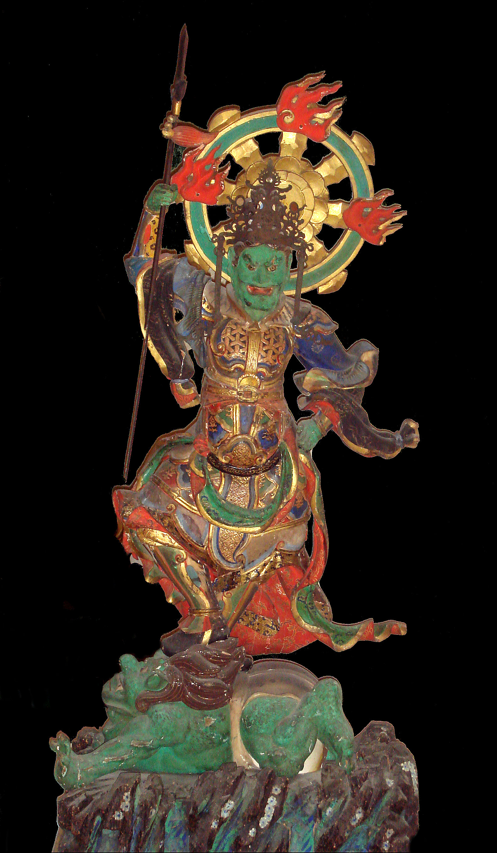 Jikoku_Dhrtarashtra